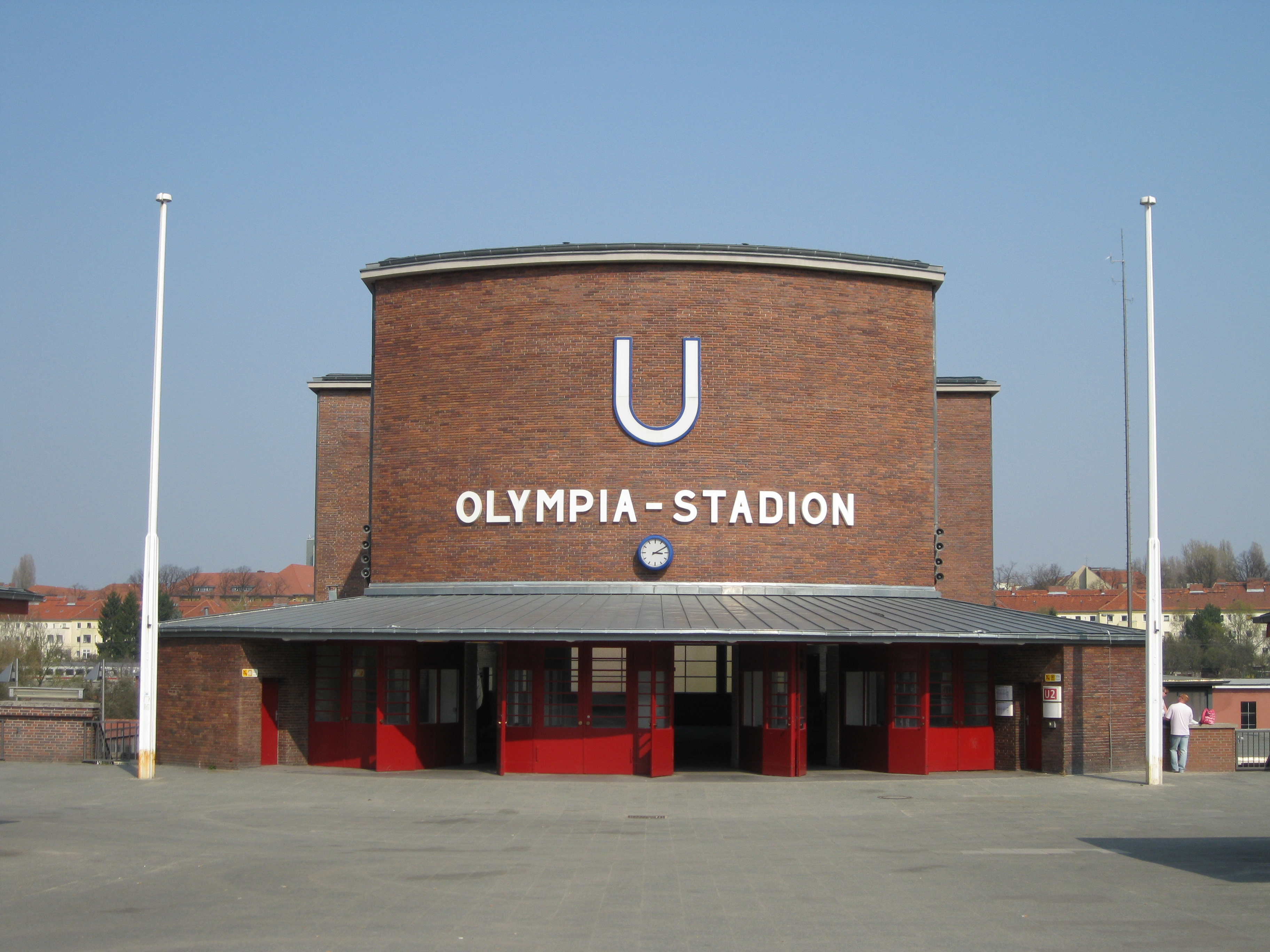 Entrance building of the Olympia-Stadion (Olympic stadium) subway station, Berlin